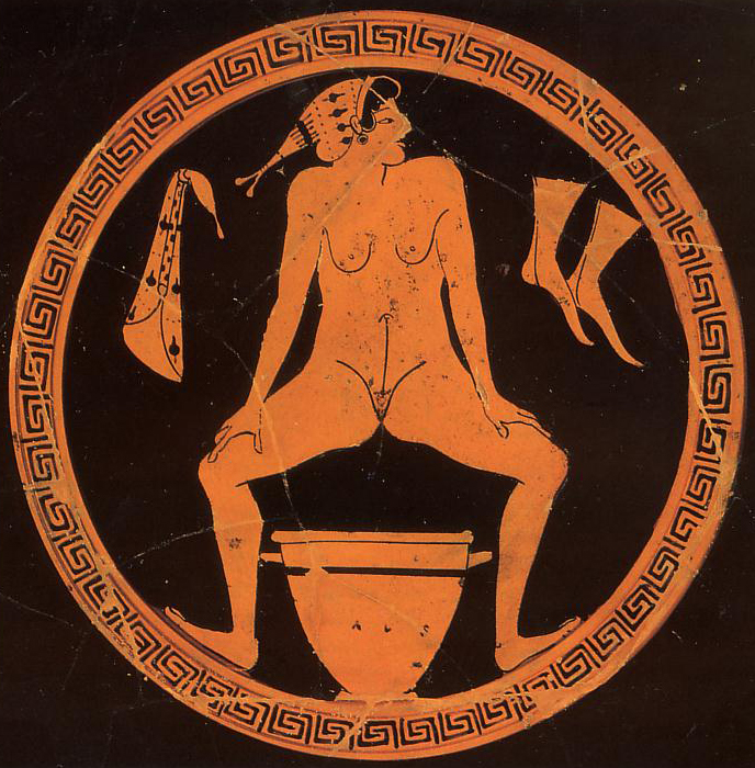 Hetaera urinating into a skyphos. Tondo of a red-figure kylix in the kind of the Foundry Painter, ca. 480 BC, Antikensammlung Berlin (Inv. 3757), ARV 404, 11.